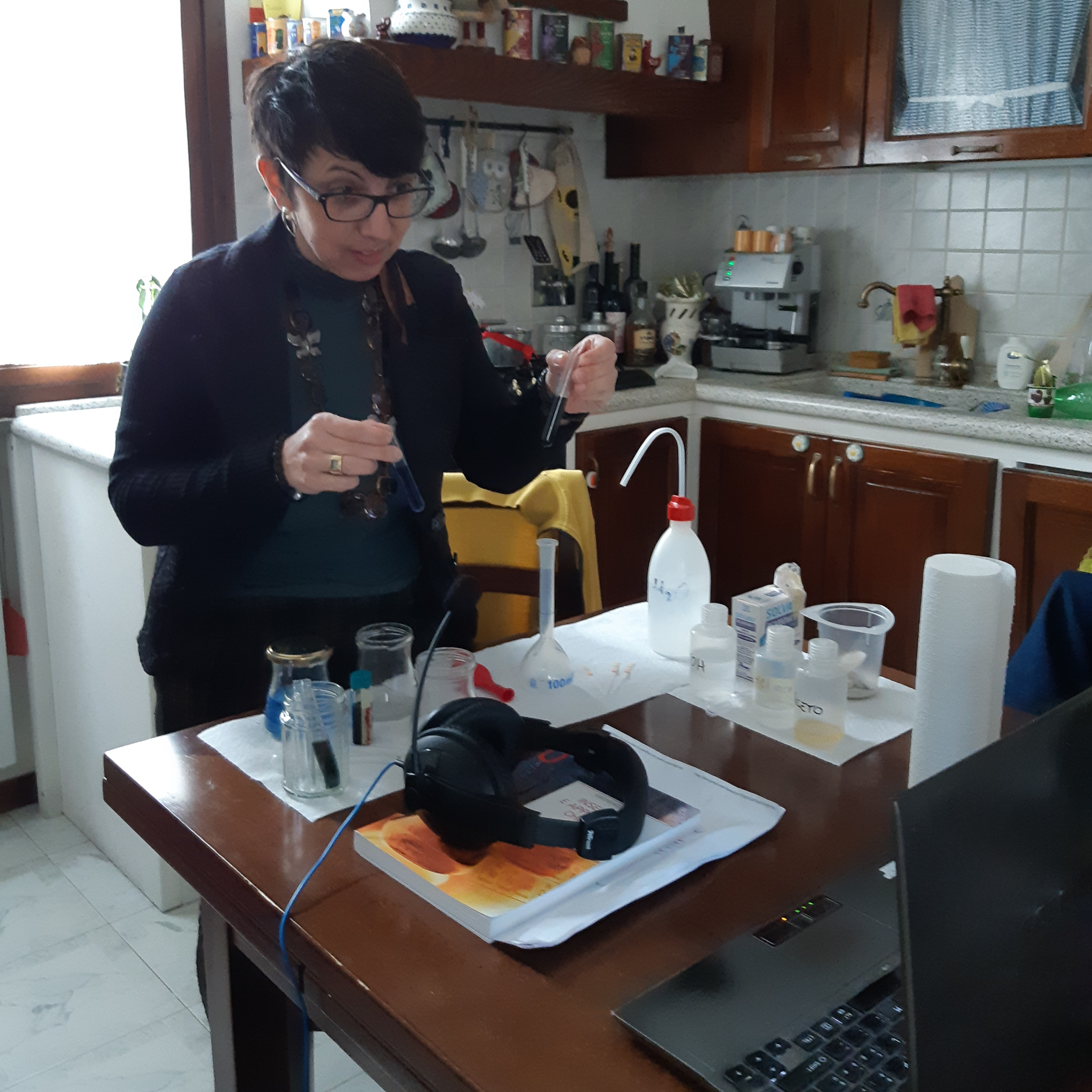 This is a photo of me during a distance lesson for the course of Primary Education Sciences at University of Pisa (Italy) (2019-2020) in the period of pandemic Covid-19. The lesson was about chemical reaction for the primary school: here, I was showing few experiments to my students from my home kitchen.